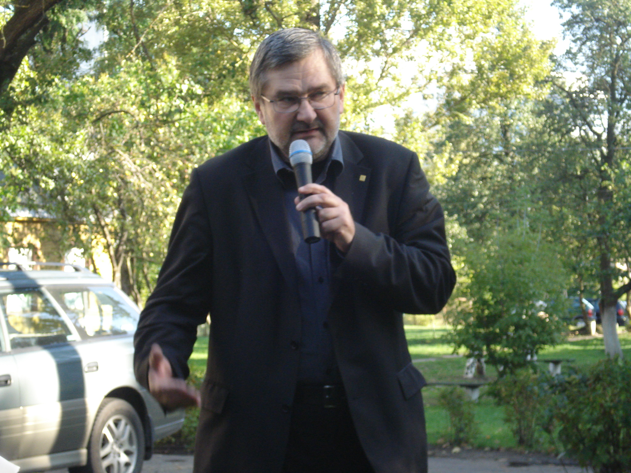 Gintautas Babravičius, Lithuanian politicians